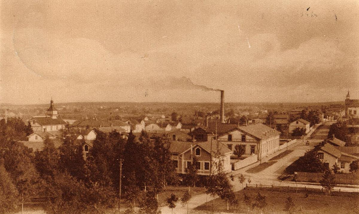 Yrjönkatu street in Kemi, Finland. From 1945 street has been known as Sauvosaarenkatu. The photo by unknown has been taken before the year 1925.